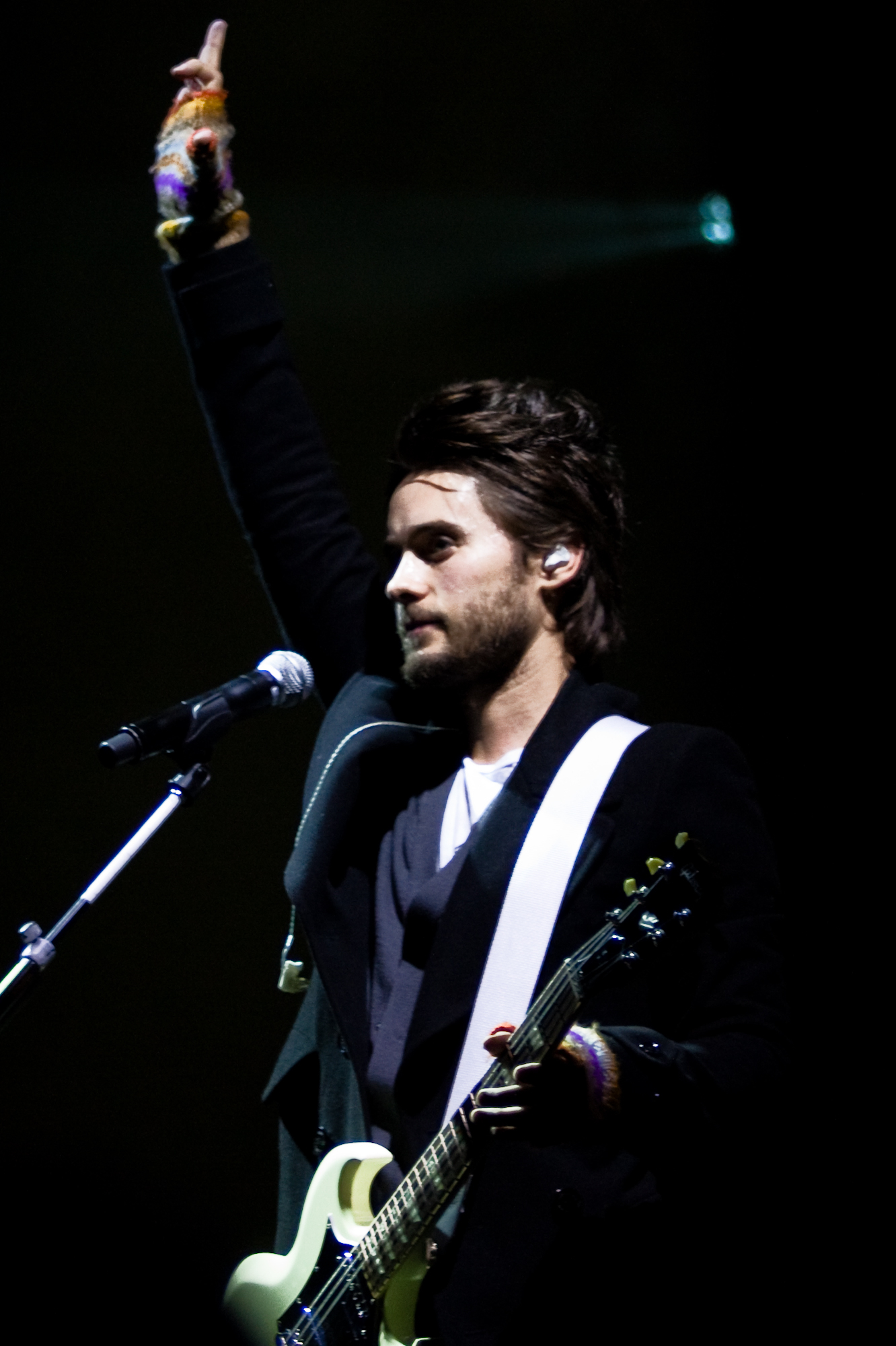 Jared Leto flipping the bird after the sound cut out at Oracle.